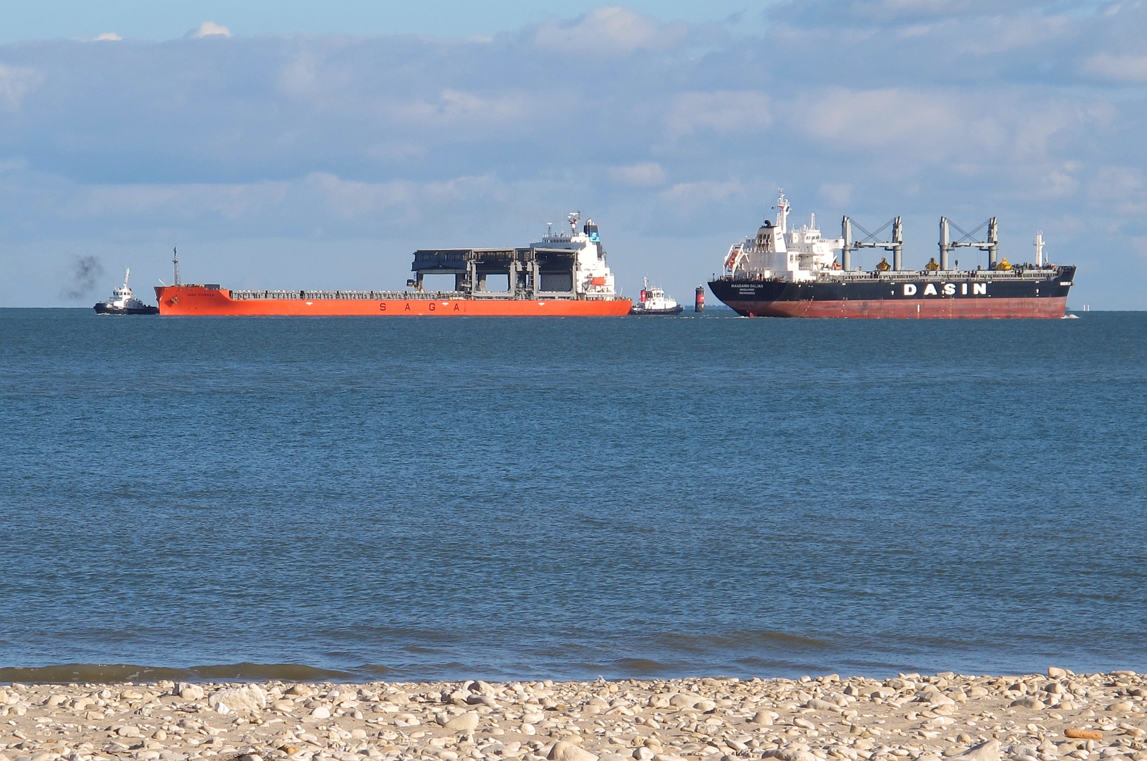 Cargo Saga Pioneer and Mandarin Dalian cross in front of the lighthouse Lavardin (Charente-Maritime France) May 27, 2014.